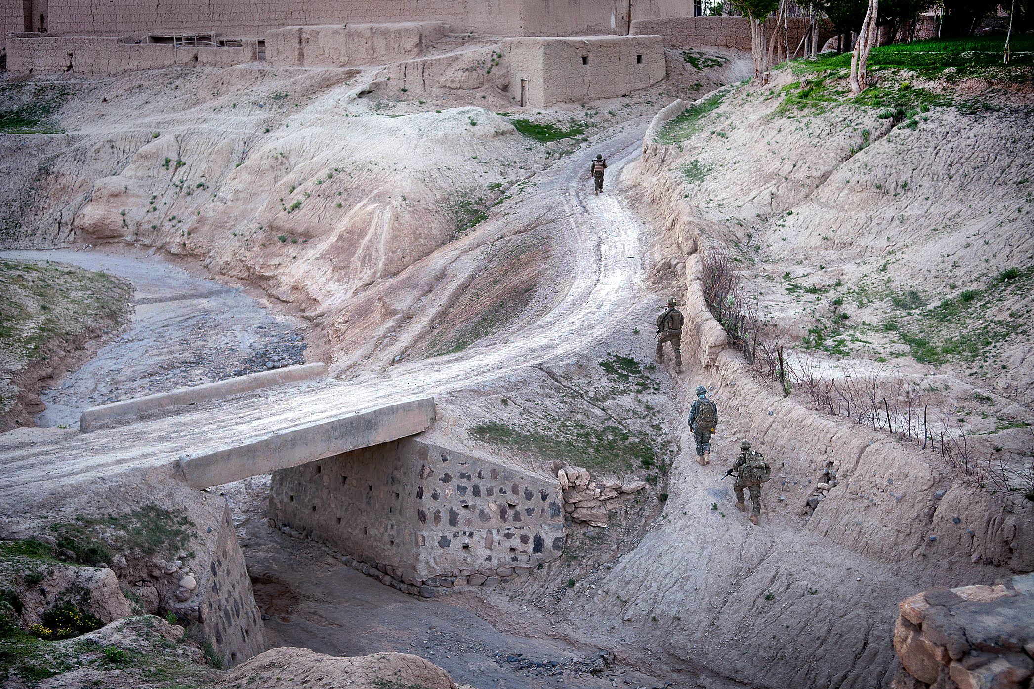 U.S. Army paratroopers and Afghan Army soldiers move along a riverbed during a foot patrol in Afghanistan's southern Ghazni province, May 8, 2012.